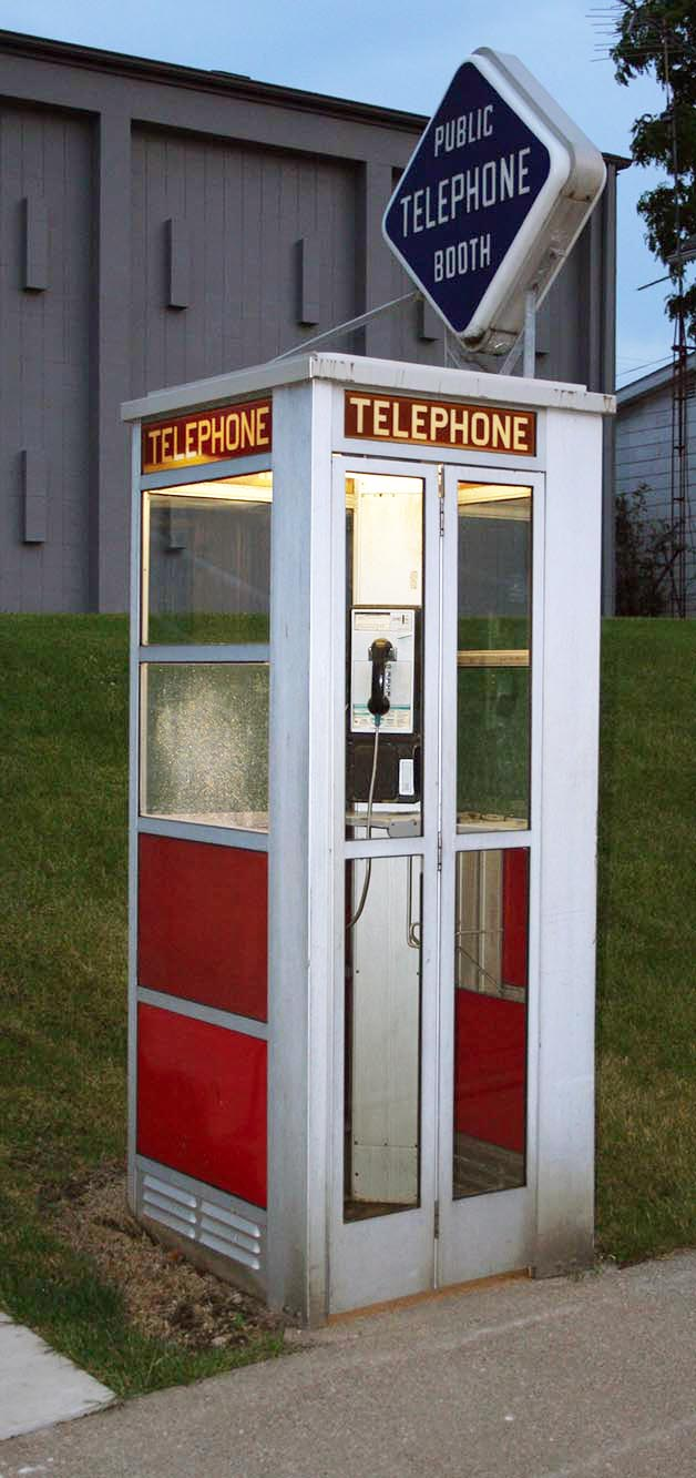 Classic, still functioning telephone booth in La Crescent, Minnesota.